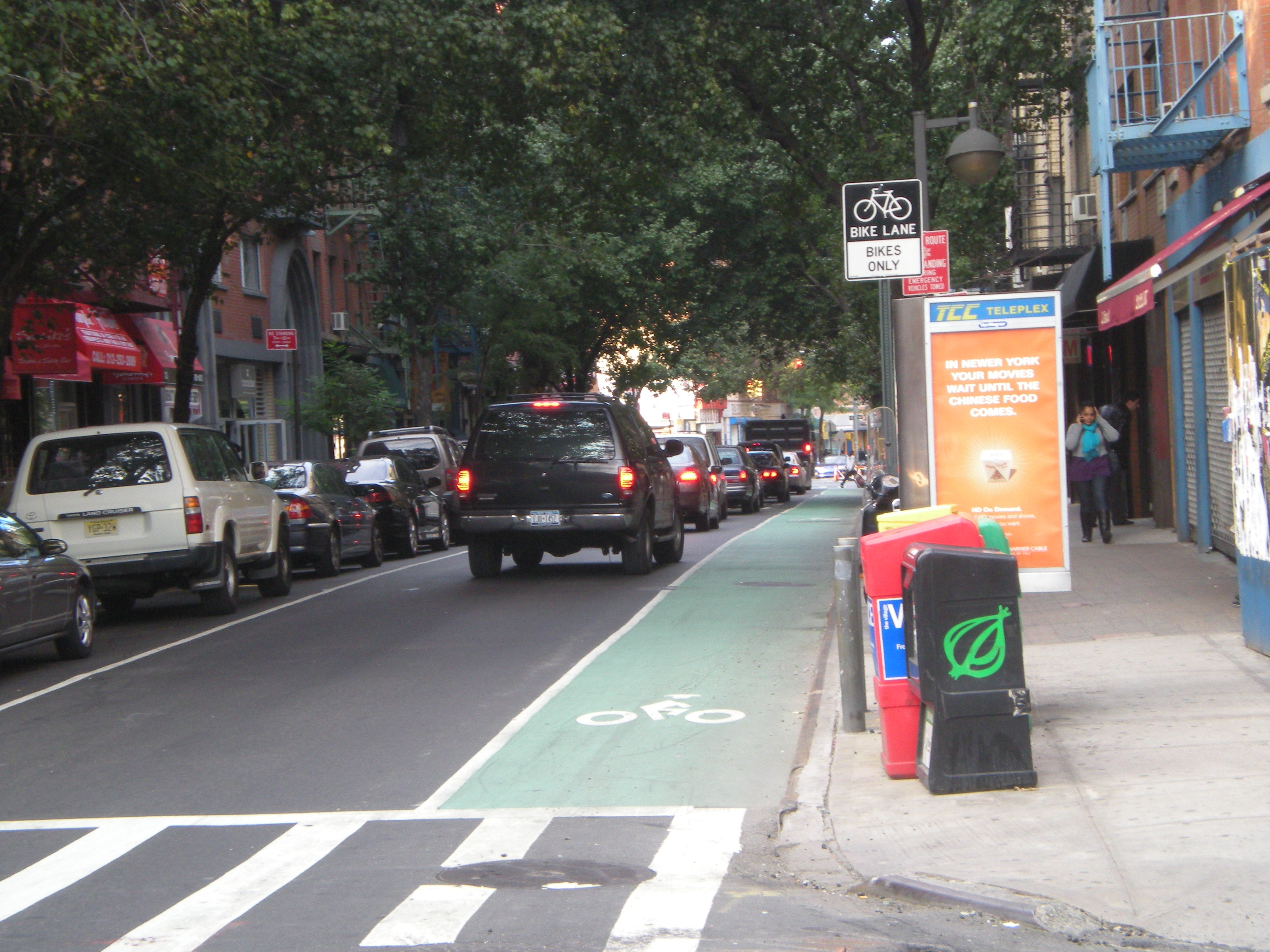 This photo is of Wikis Take Manhattan goal code {1 }, w:| .